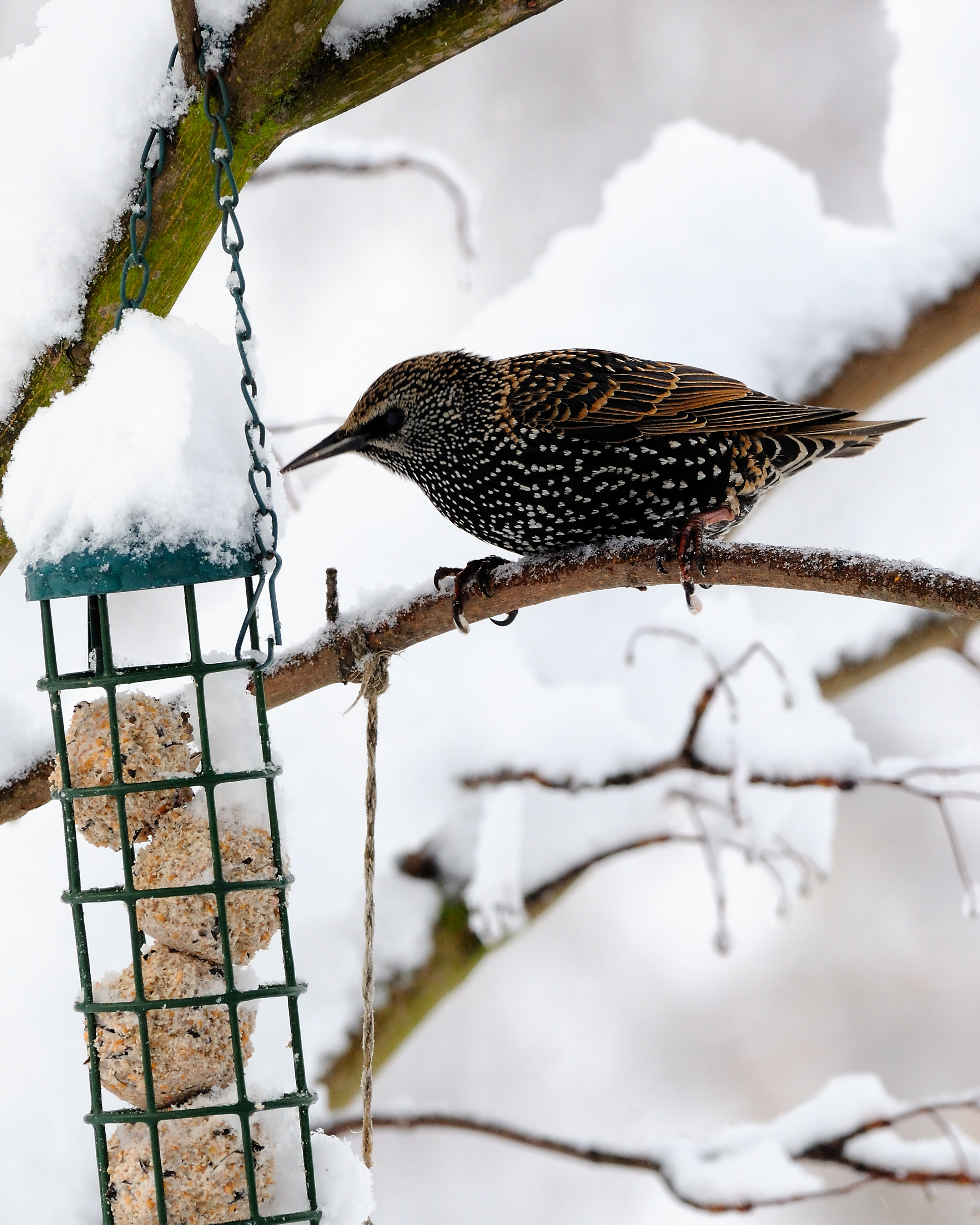 An European Starling in England.